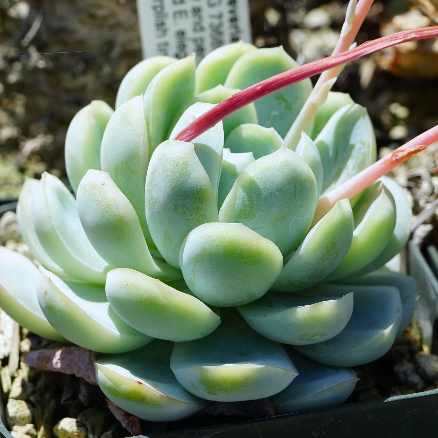 ISI 97-68 as "Echeveria potosina" (now a synonym of E. elegans according to The Plant List)